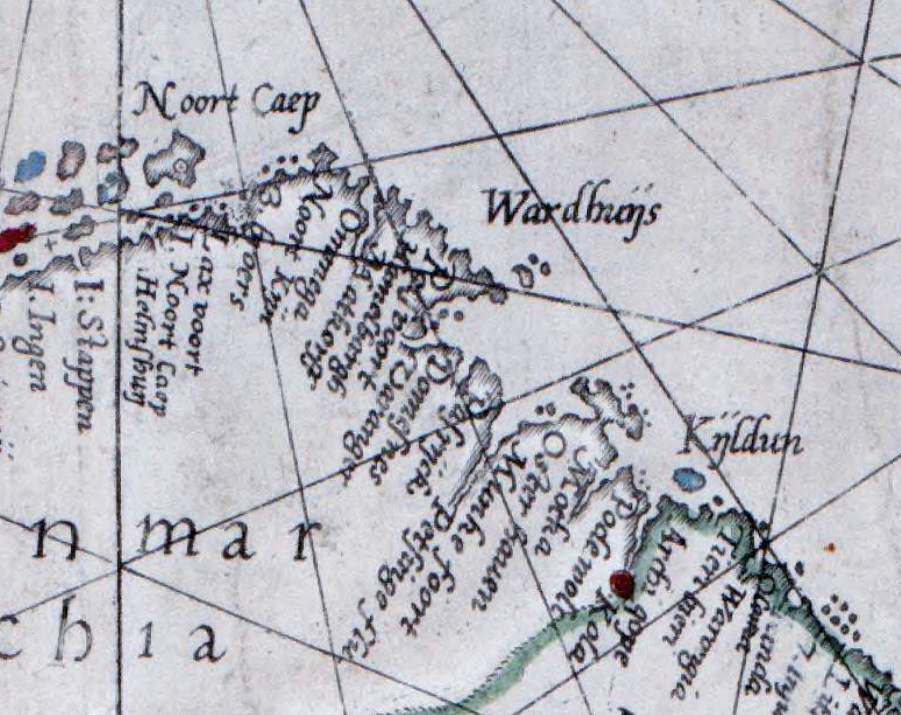 Fragment of the Generale pascaerte van gantsch Europa. Northern trade area explored by the British and the Dutch.